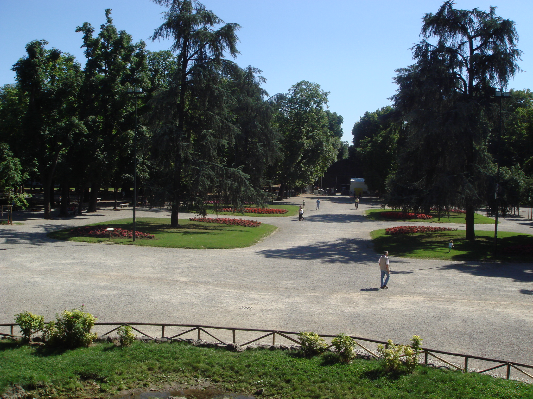 "Giardini pubblici di Porta Venezia" park, in Milan, Italy. Picture by Giovanni Dall'Orto, June 23 2006.